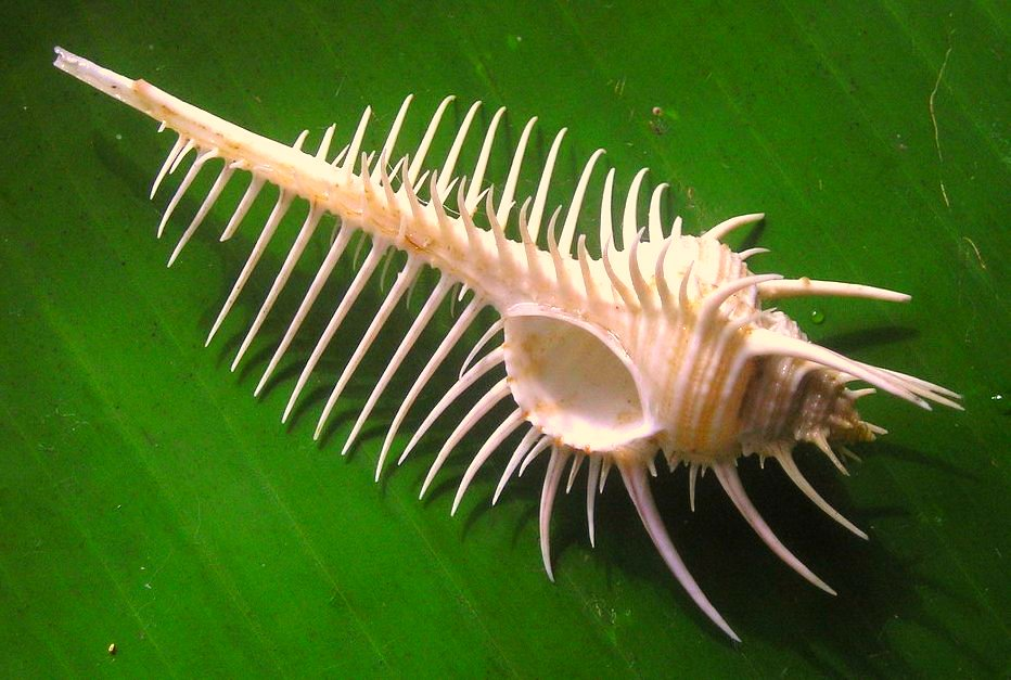 Photo of of the shell of Venus Comb Murex Murex pecten.